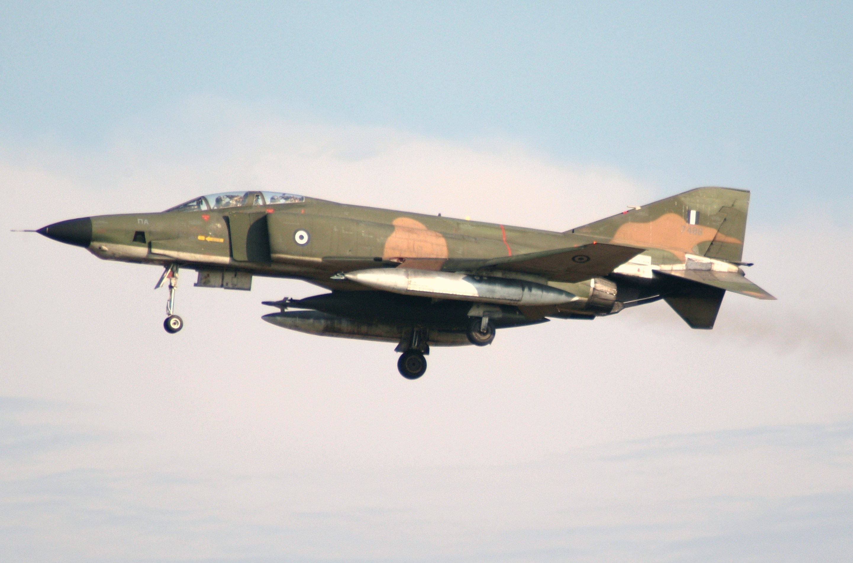 Taken earlier this week. Still got the old engines, lovely long smoke trail